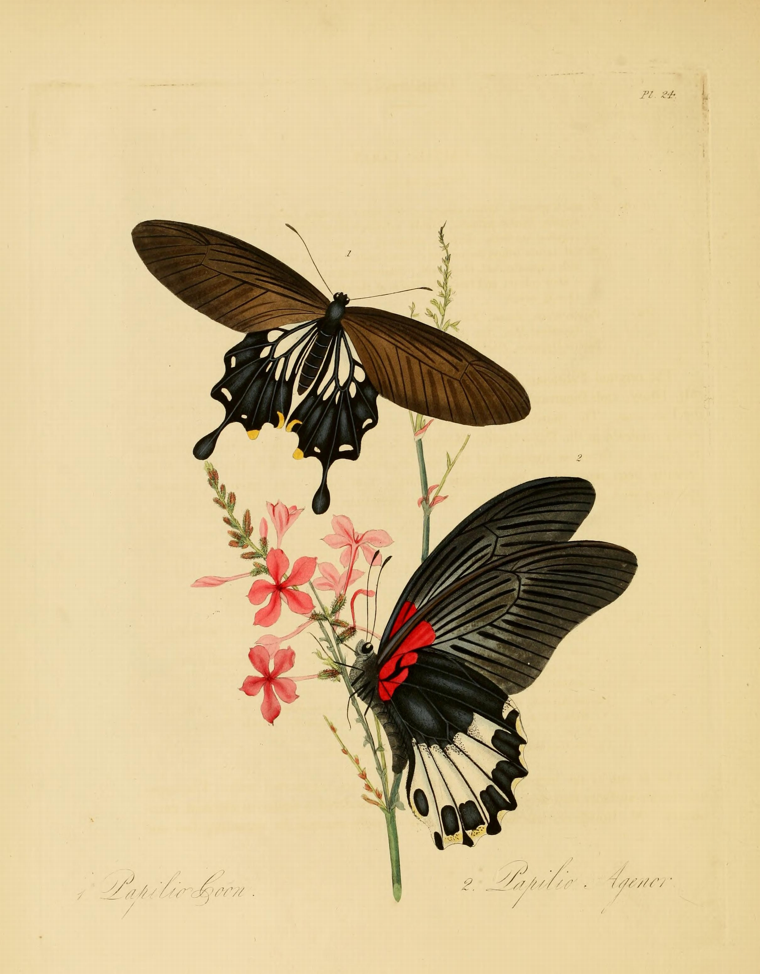 Pl. 24 of "Natural history of the insects of China". Warning: some taxa/names may be misidentified/misapplied or placed in a different genus. [Donovan text of 1798 (ECCO TCP), illustration caption and name in Westwood 1838 revised text]: Papilio coon (Atrophaneura coon), [Donovan text of 1798 (ECCO TCP), illustration caption and name in Westwood 1838 revised text]: Papilio agenor (Papilio memnon).